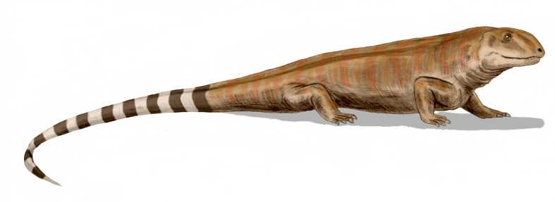 Haptodus garnettensis, a synapsid from the early Permian of Europe, pencil drawing and digital coloring